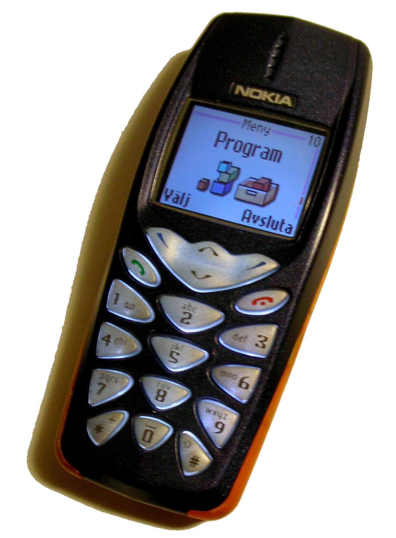 Nokia 3510i mobile phone, with color screen.